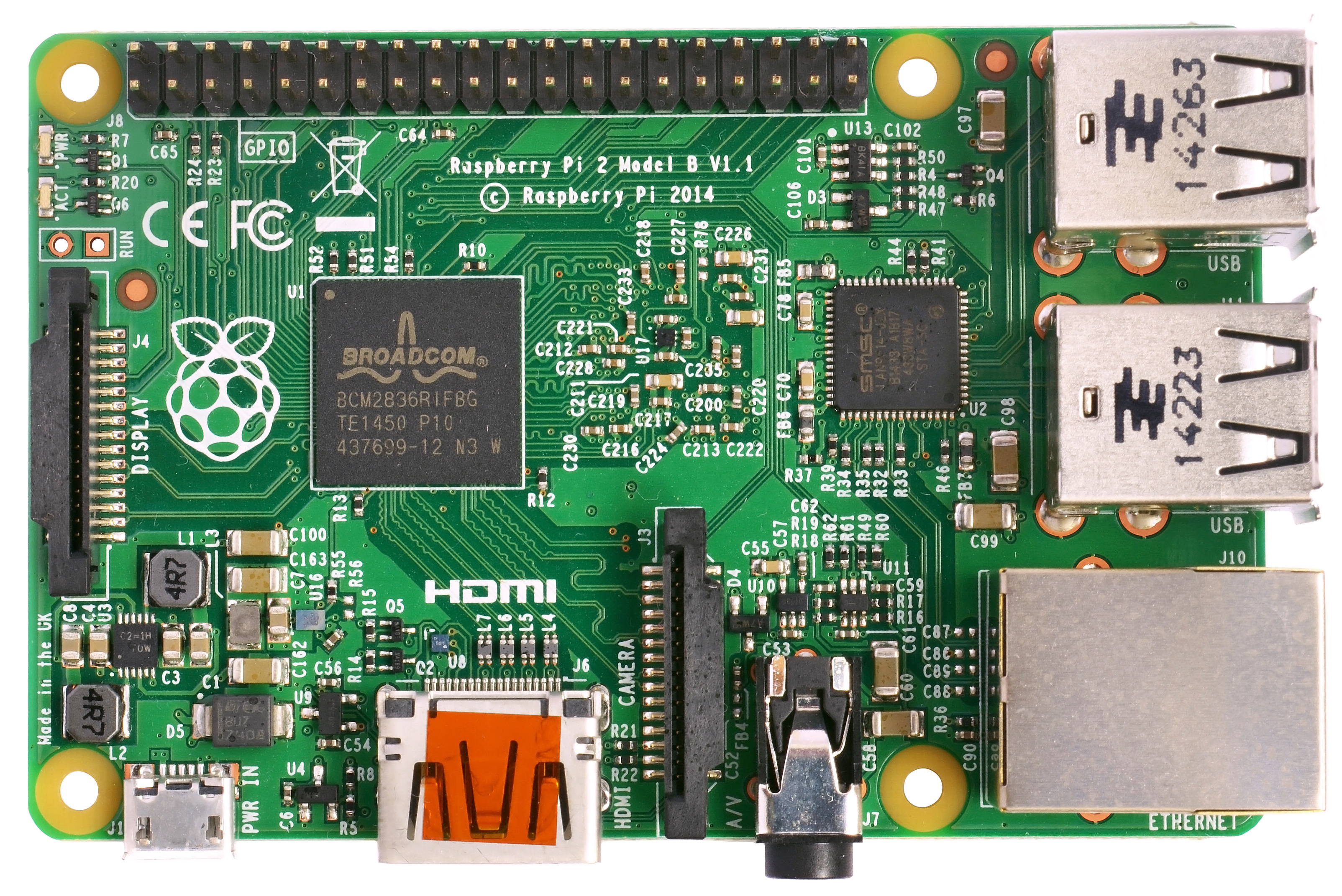 Top half of Raspberry Pi 2 Model B v1.1 viewed directly from above. (Ordered the day after it came out- on Tue 3 Feb 2015- and received a couple of days after that. This one was supplied by CPC/Farnell and "Made in the UK"). Testing shows that this one *is* flash-sensitive- the shiny "U16" semiconductor a centimetre or so to the left of the HDMI badge is apparently to blame.